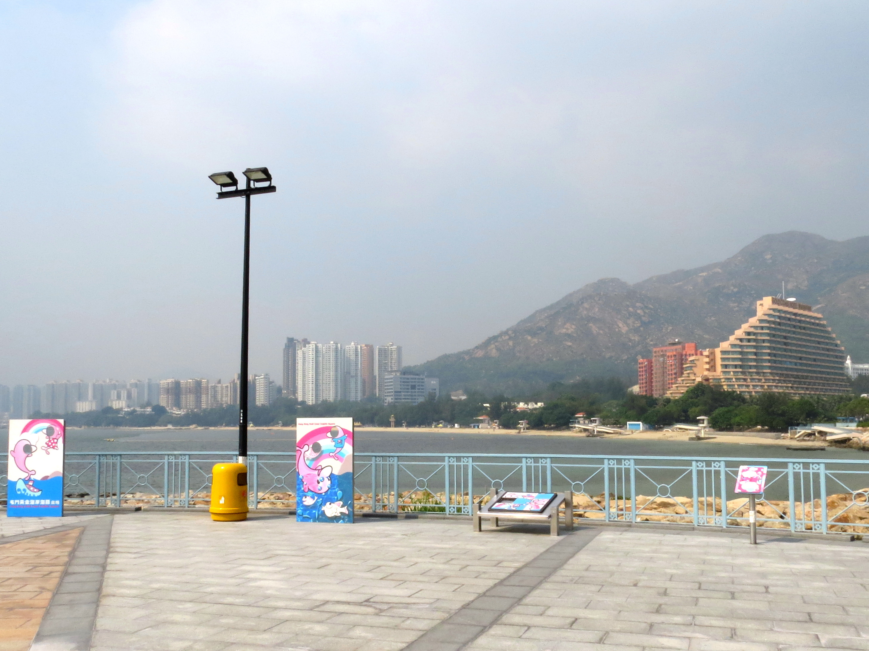 Hong Kong Gold Coast Dolphin Square, Tuen Mun, New Territories, Hong Kong.